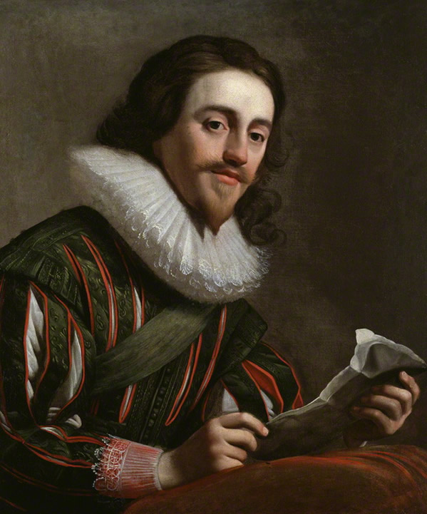 Portrait of King Charles I of England, Scotland and Ireland